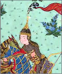 Painting of Barta in The Shahnama of Shah Tahmasp